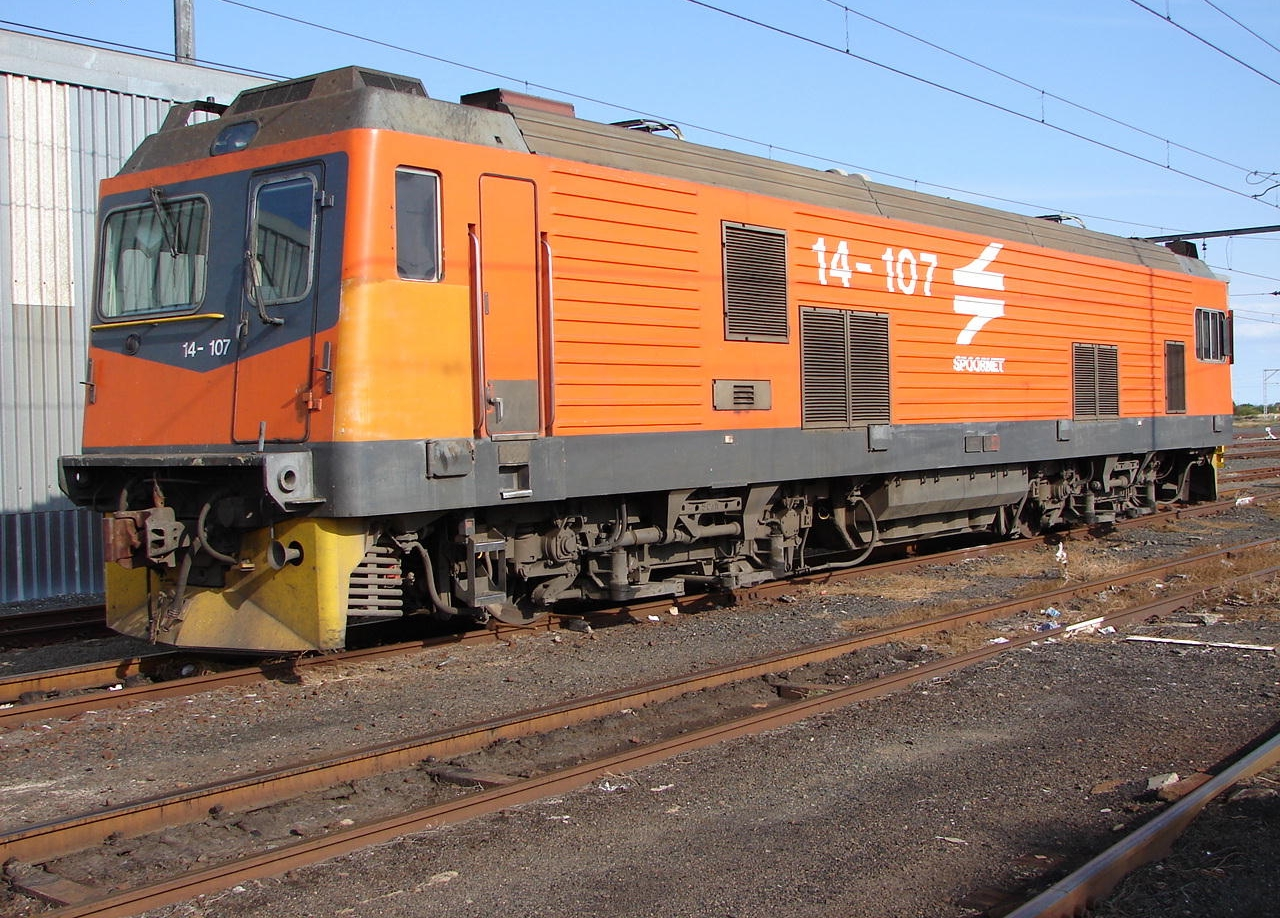 Spoornet Class 14E1 14-107 Builder's Number: HST 16876-1-11/1994 Location: Beaufort West, Western Cape